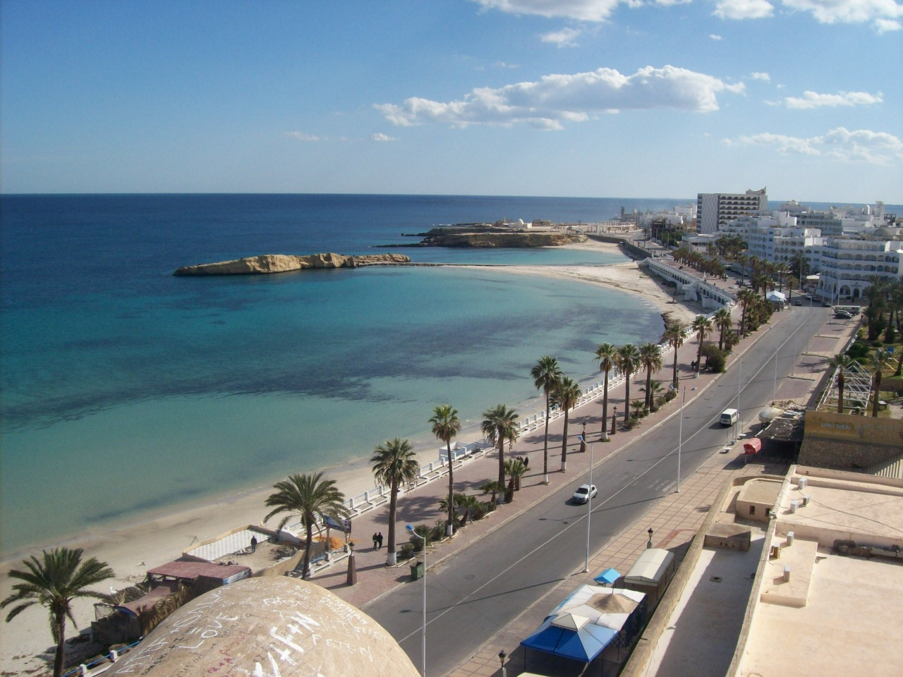 Panorama of Monastir from the tower of Ribat